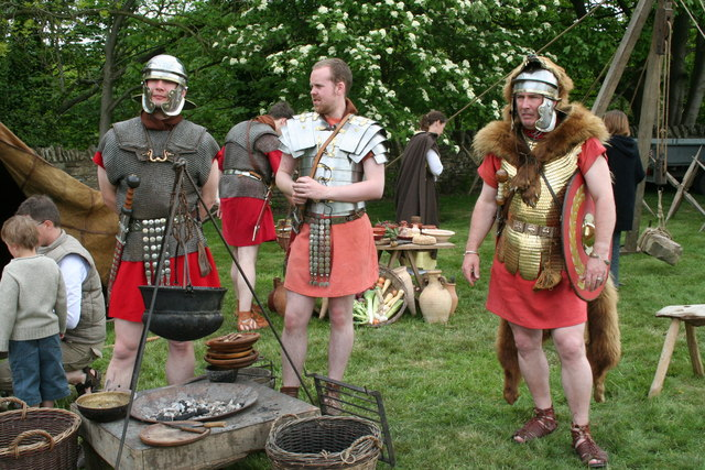 The Ermine Street Guard Roman's visit to Bolsover Castle